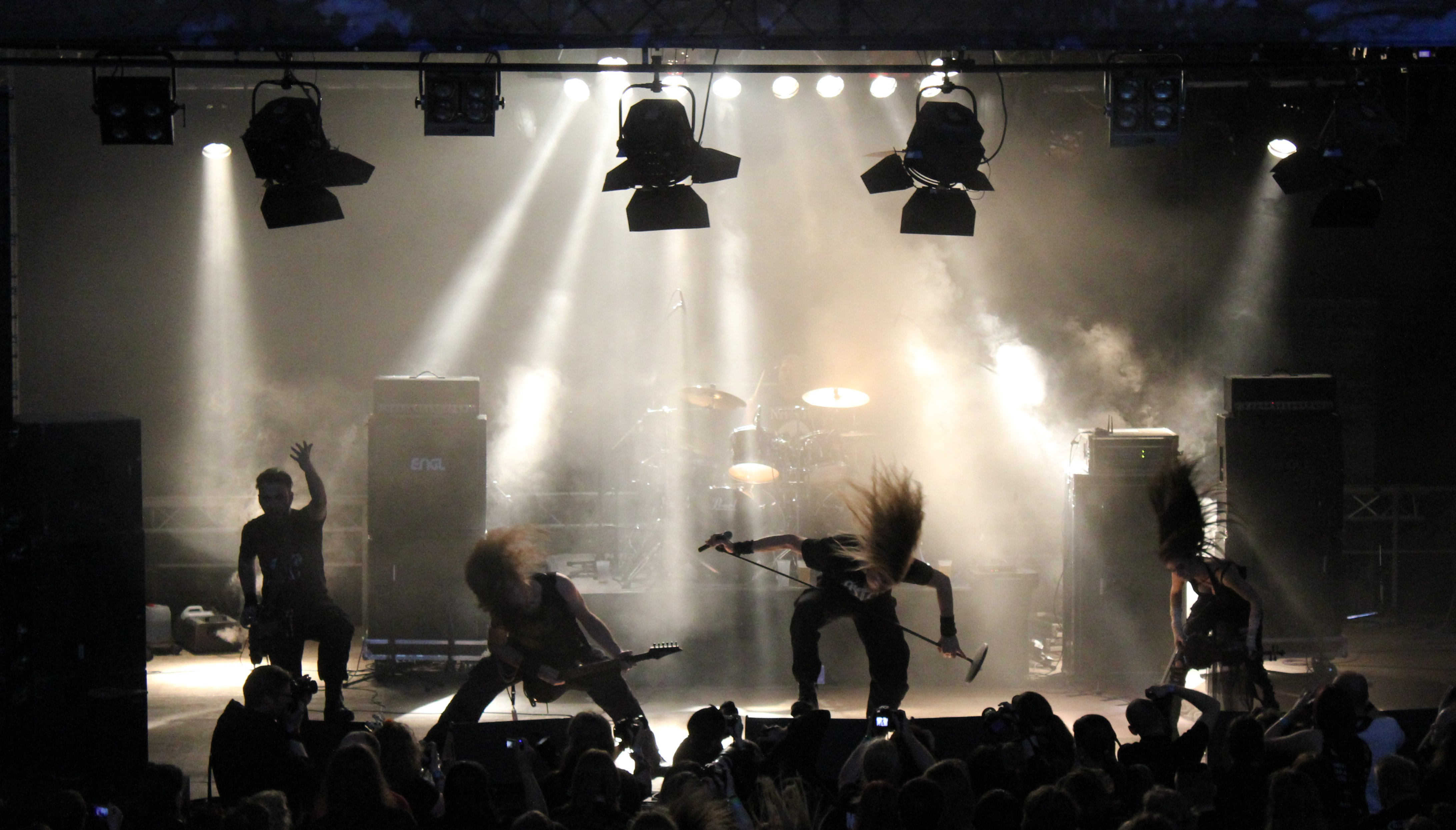 "Arafel" live at the Ragnarök-Festival 2011